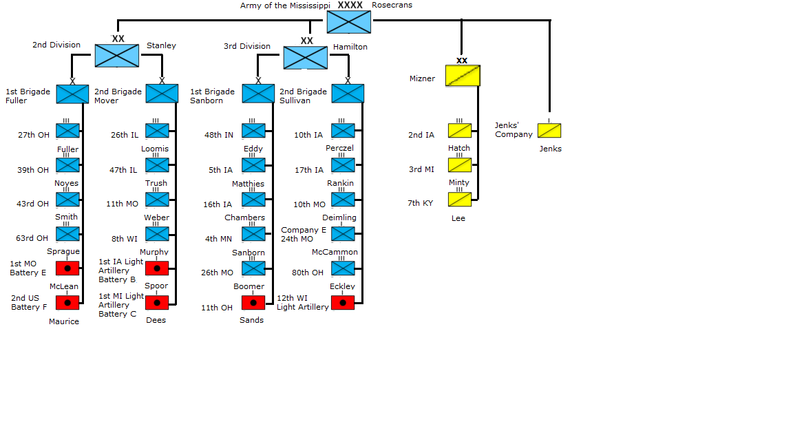 Union forces at Iuka.